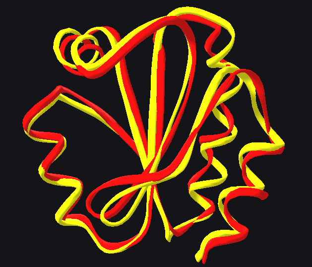 A structural alignment of human and drosophila thioredoxins.